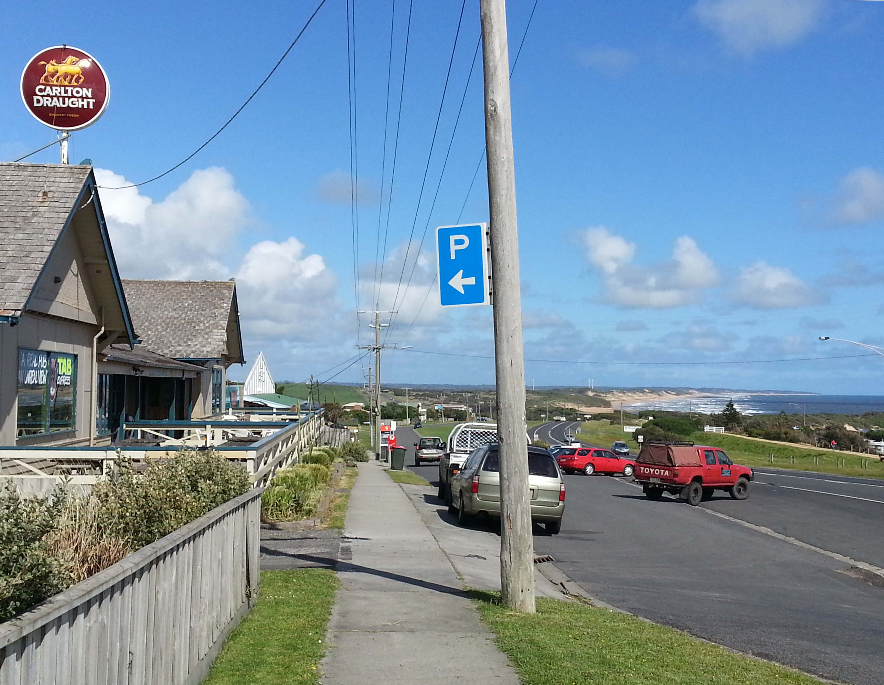 Main shops in Kilcunda, Victoria, Australia